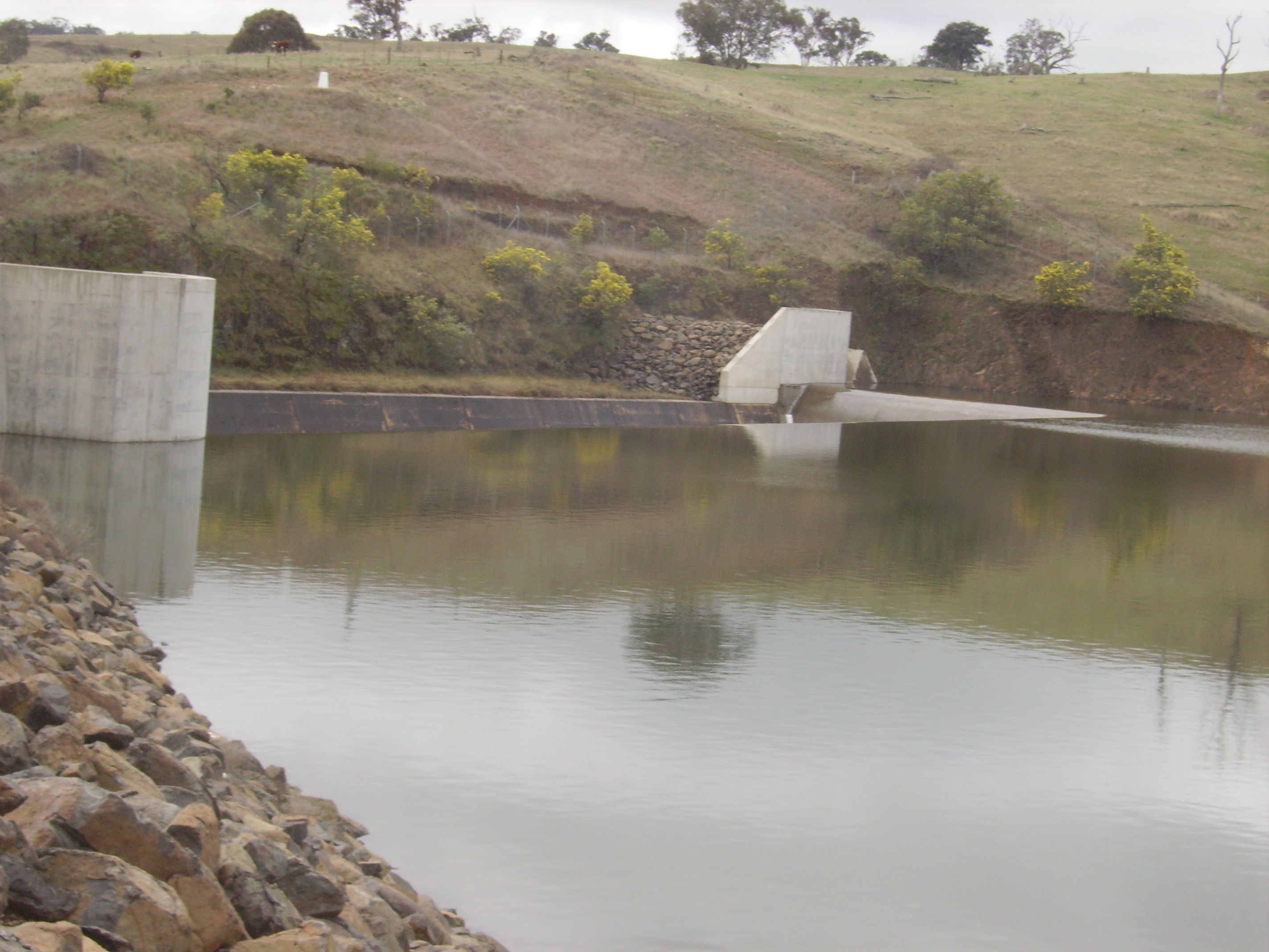 View from the top of the wall of Ben Chifley Dam across to the spillway.